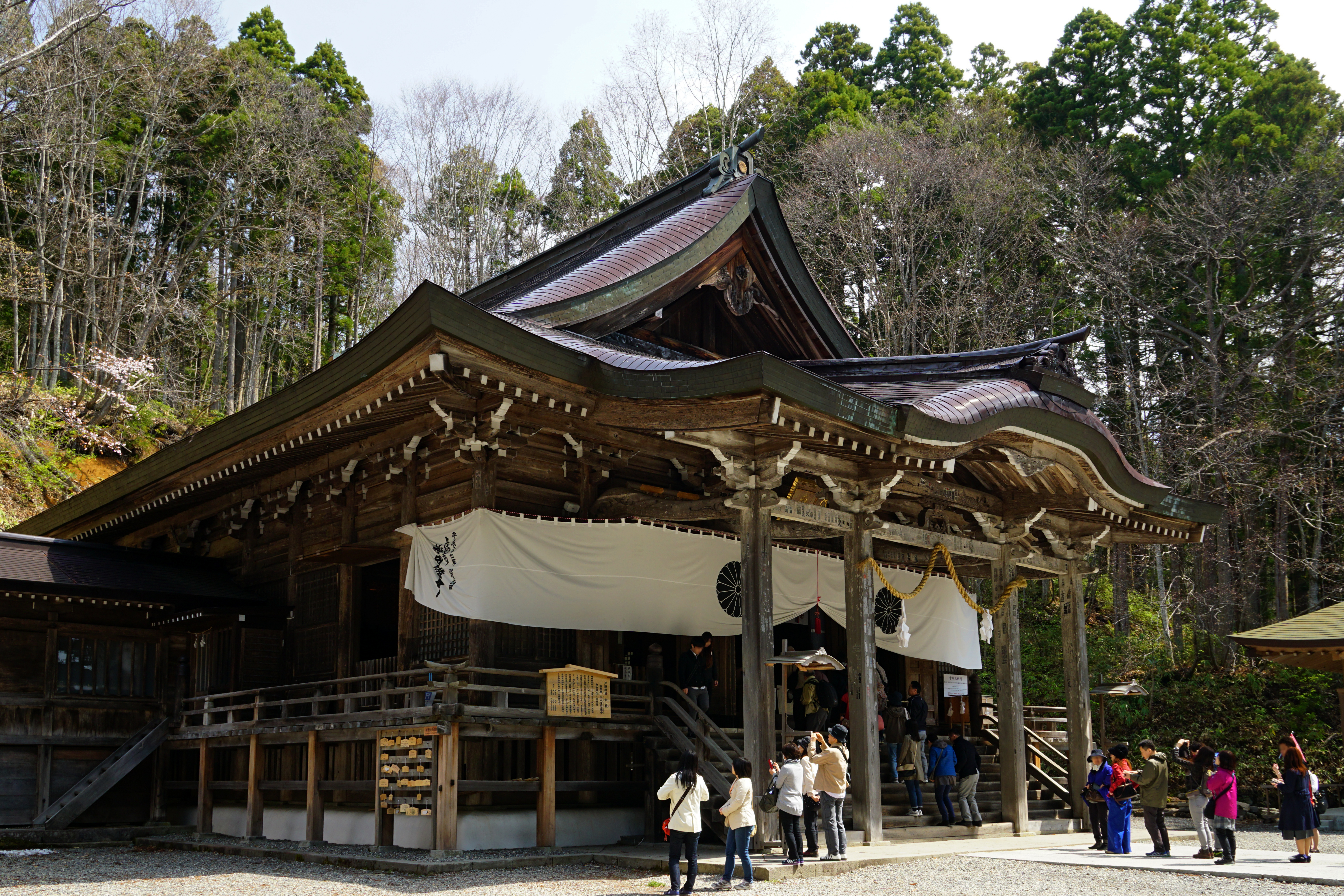 Togakushi Shrine Chū-sha in Nagano, Nagano prefecture, Japan.